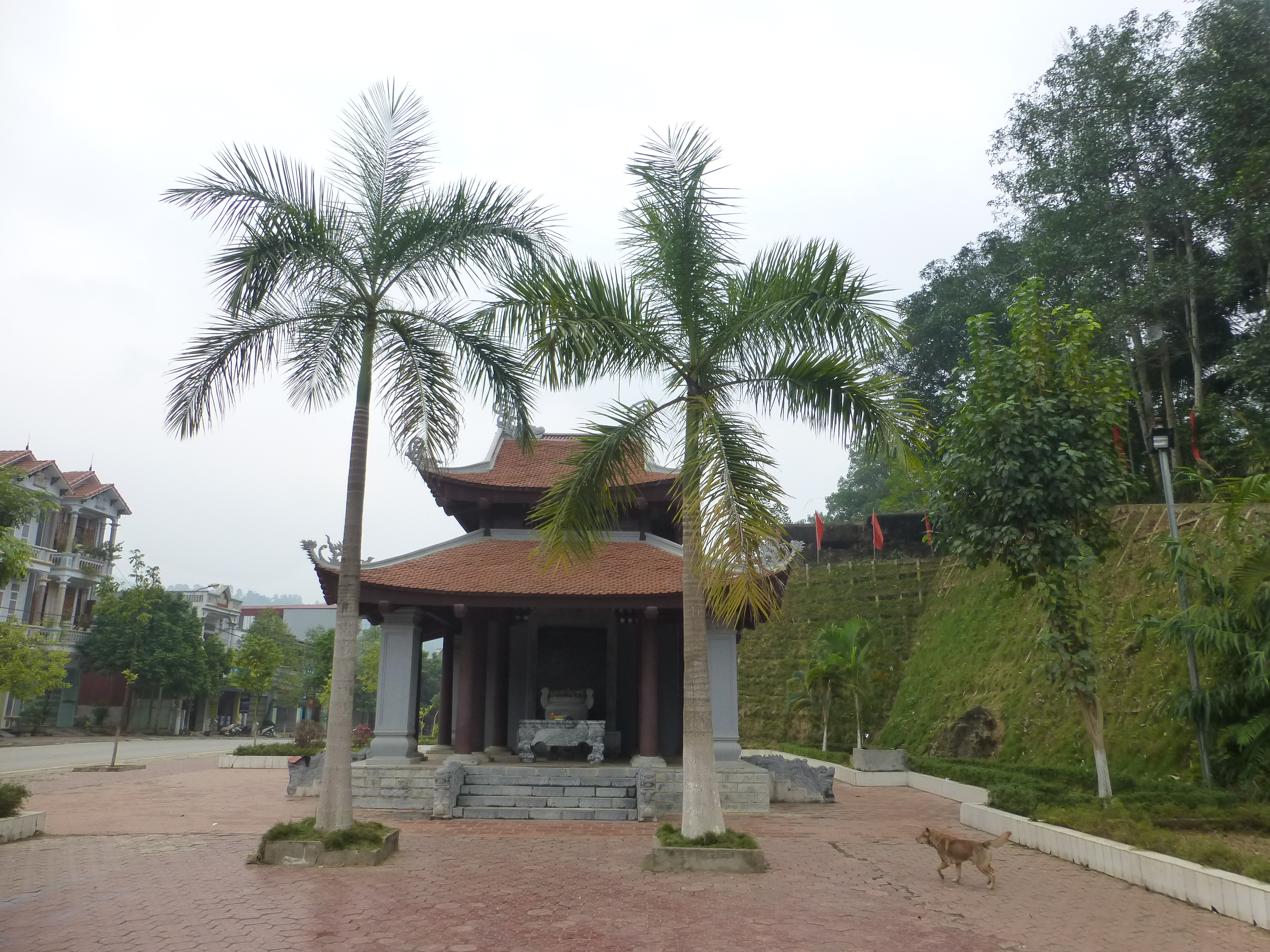 A monument in a small park in Pho Lu Town, Bao Thang District, Lao Cai Province, Vietnam.